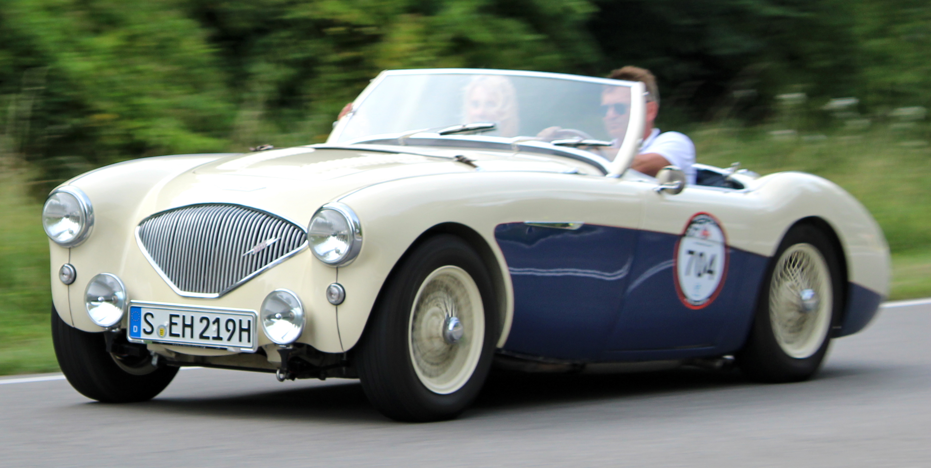 Austin Healey 100 BN1 Le Mans (1953) at Solitude Revival 2019